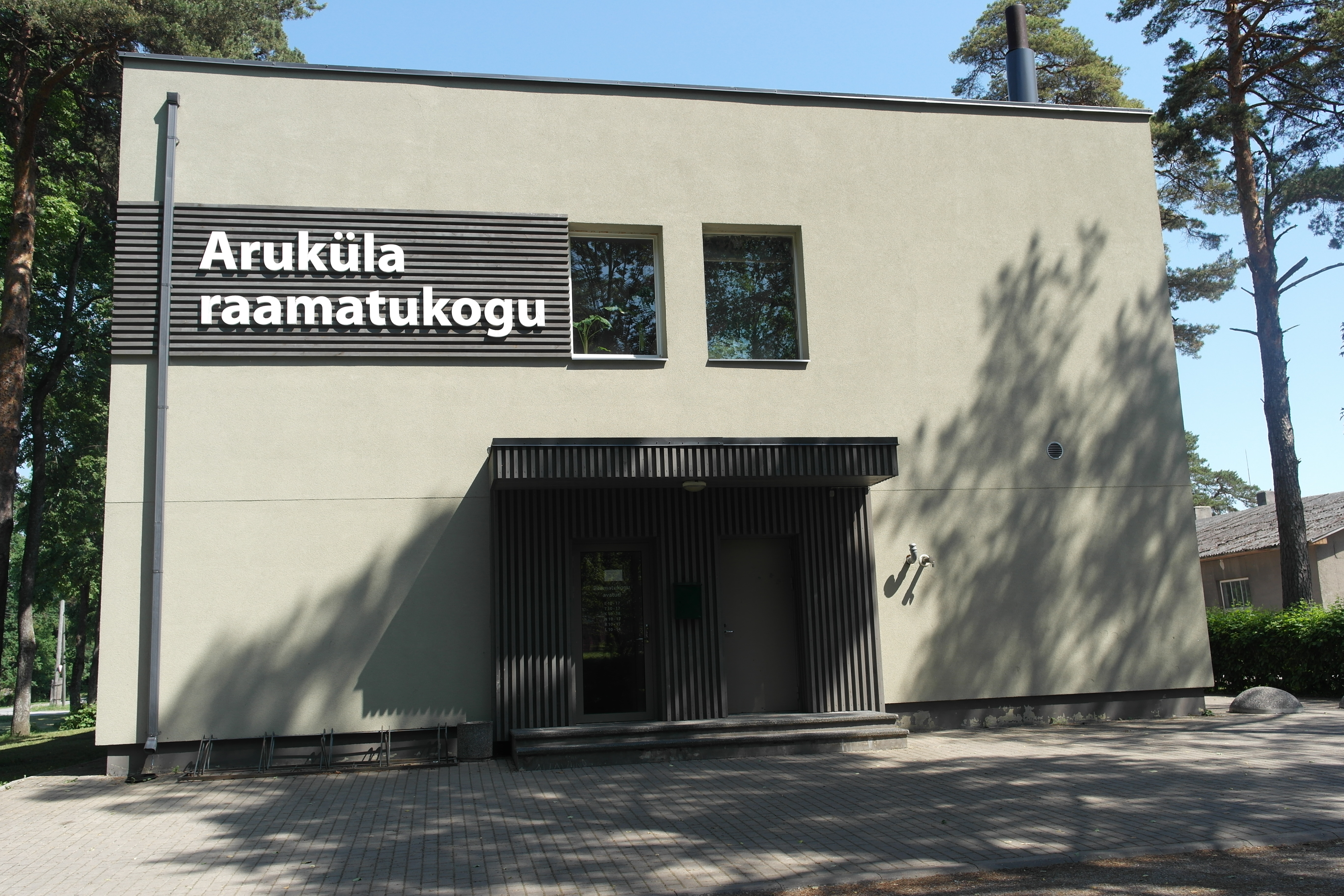 Aruküla small borough library